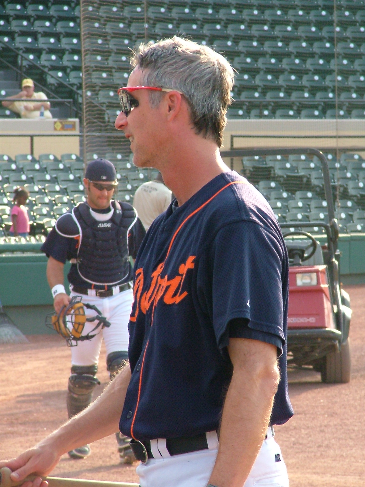 Gary Green, manager of the Lakeland Tigers, in 2004